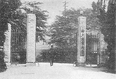 Kobe University of Commerce (Antecedent of Kobe University)